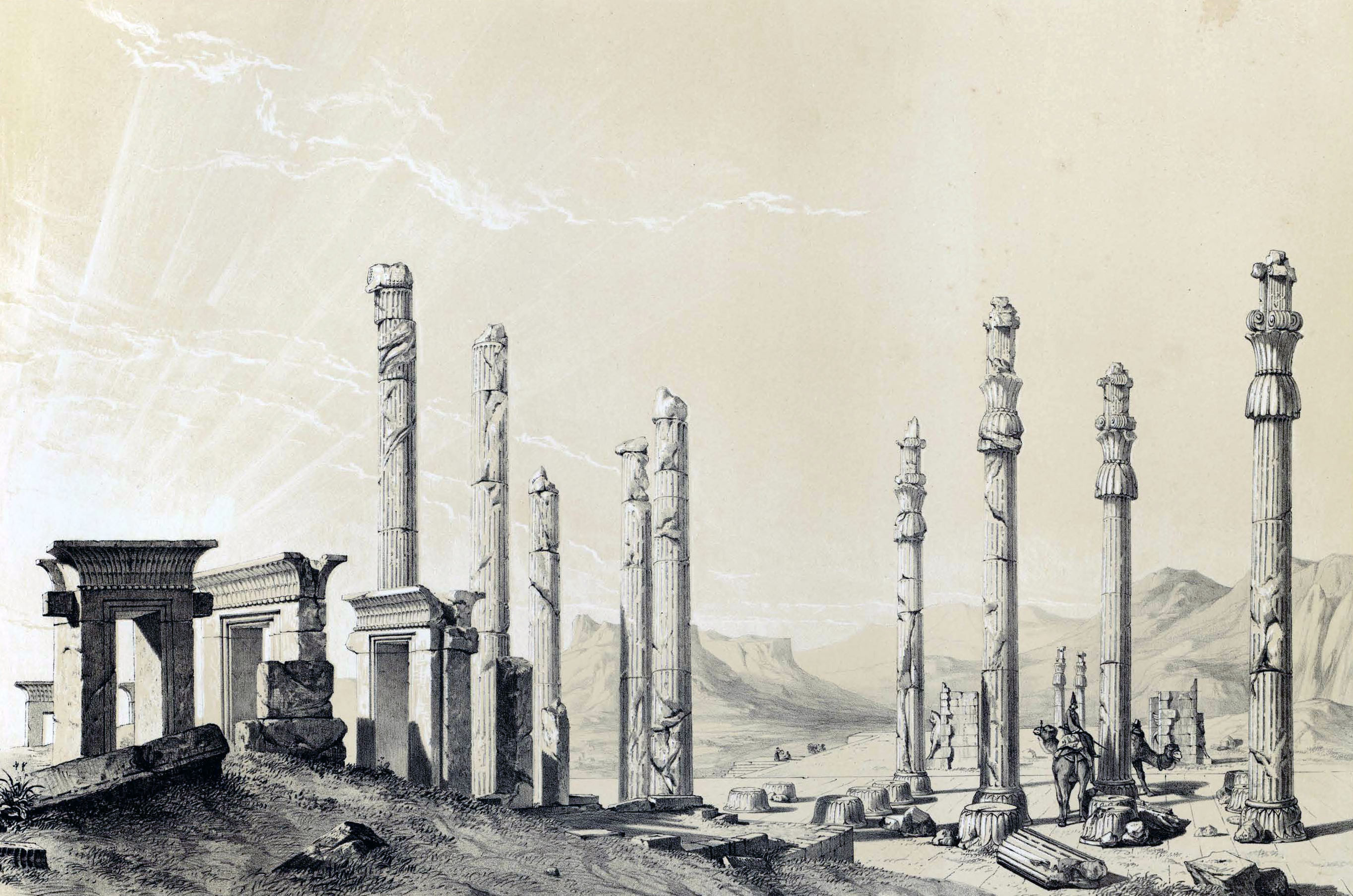 Persepolis , view the ruins